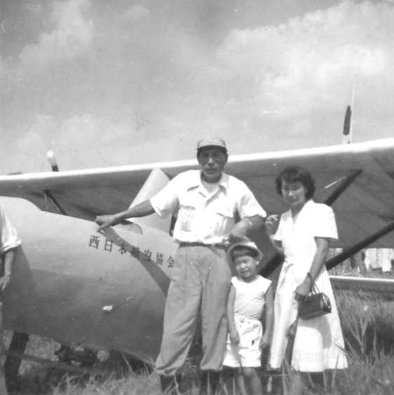 SM-206 Glider and Kawabe family